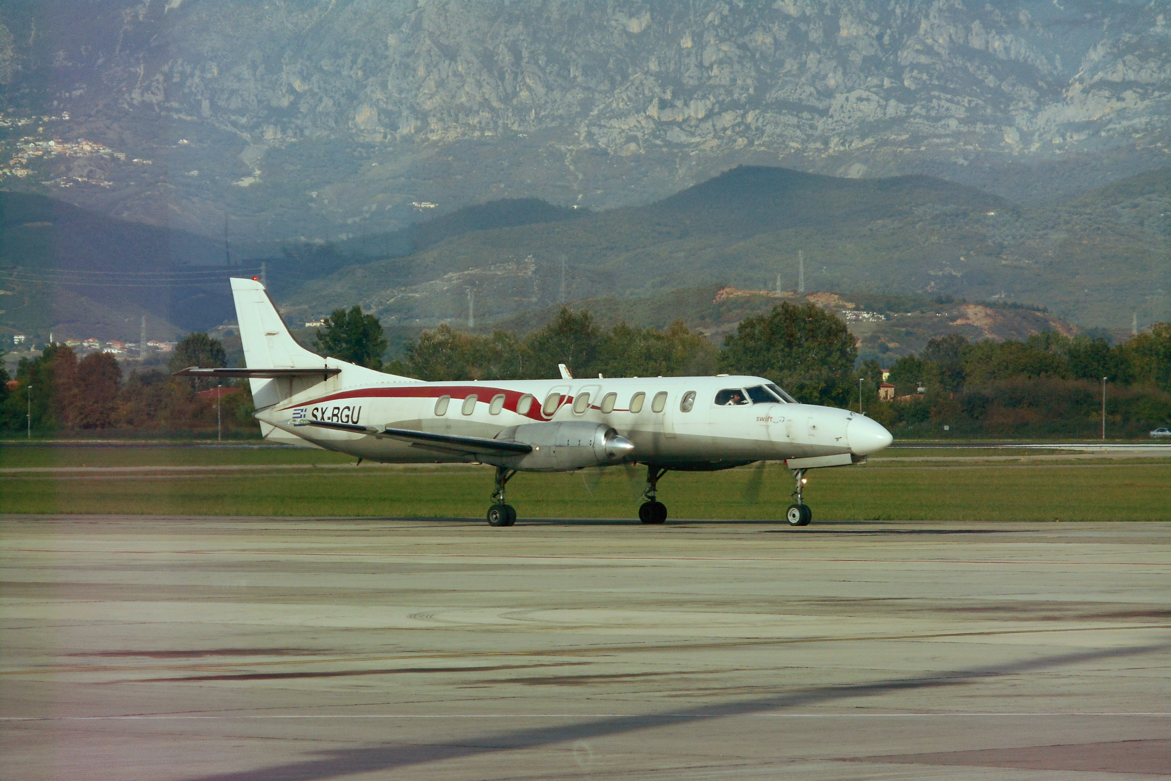 SX-BGU, Fairchild Swearingen SA227-AC Metro III, (C/N AC-615B) taxiing at Tirana Rinas Airport. This two engine turboprop is operated by MDF - Mediterranean Air Freight. (DSCN0278)